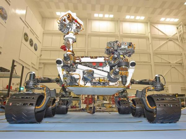 Sonda Curiosity